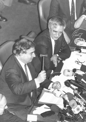 Uruguay Round of negotations for the WTO